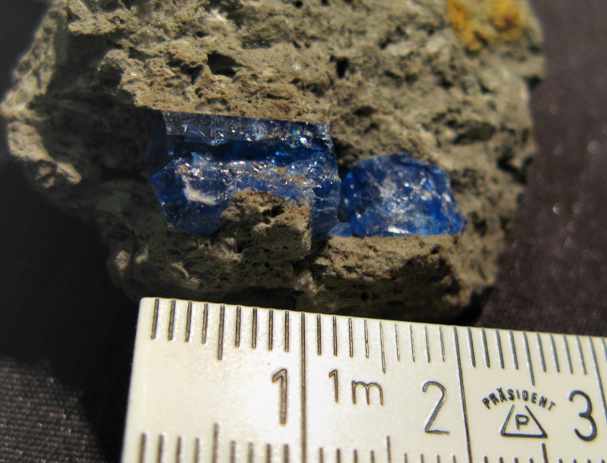 Haüyne in matrix Pumice, ca. 2 cm large